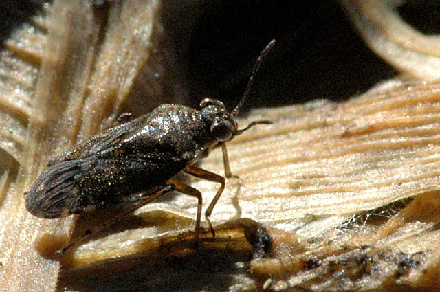 Picture taken in Commanster, Belgian High Ardennes . Species: Saldula palustris